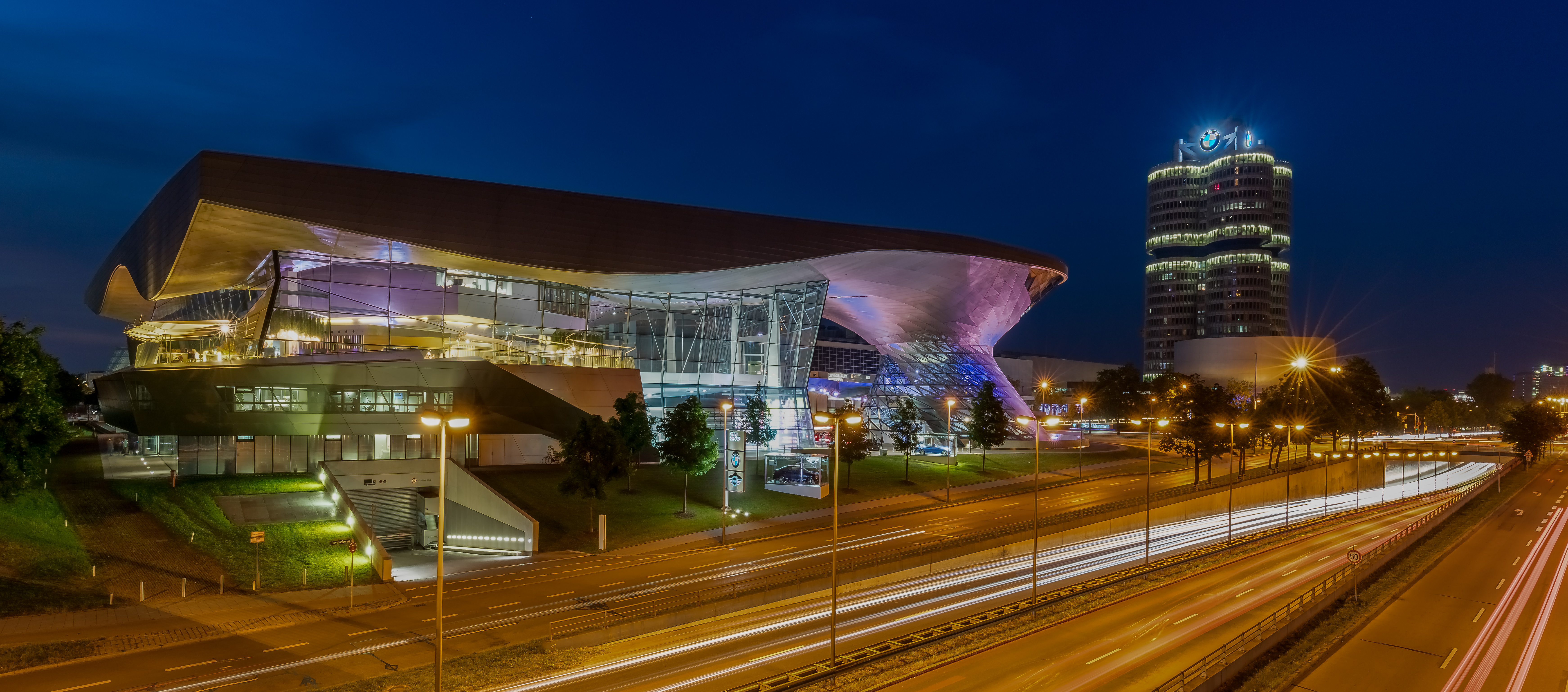 BMW Welt and BMW Tower, Munich, Germany